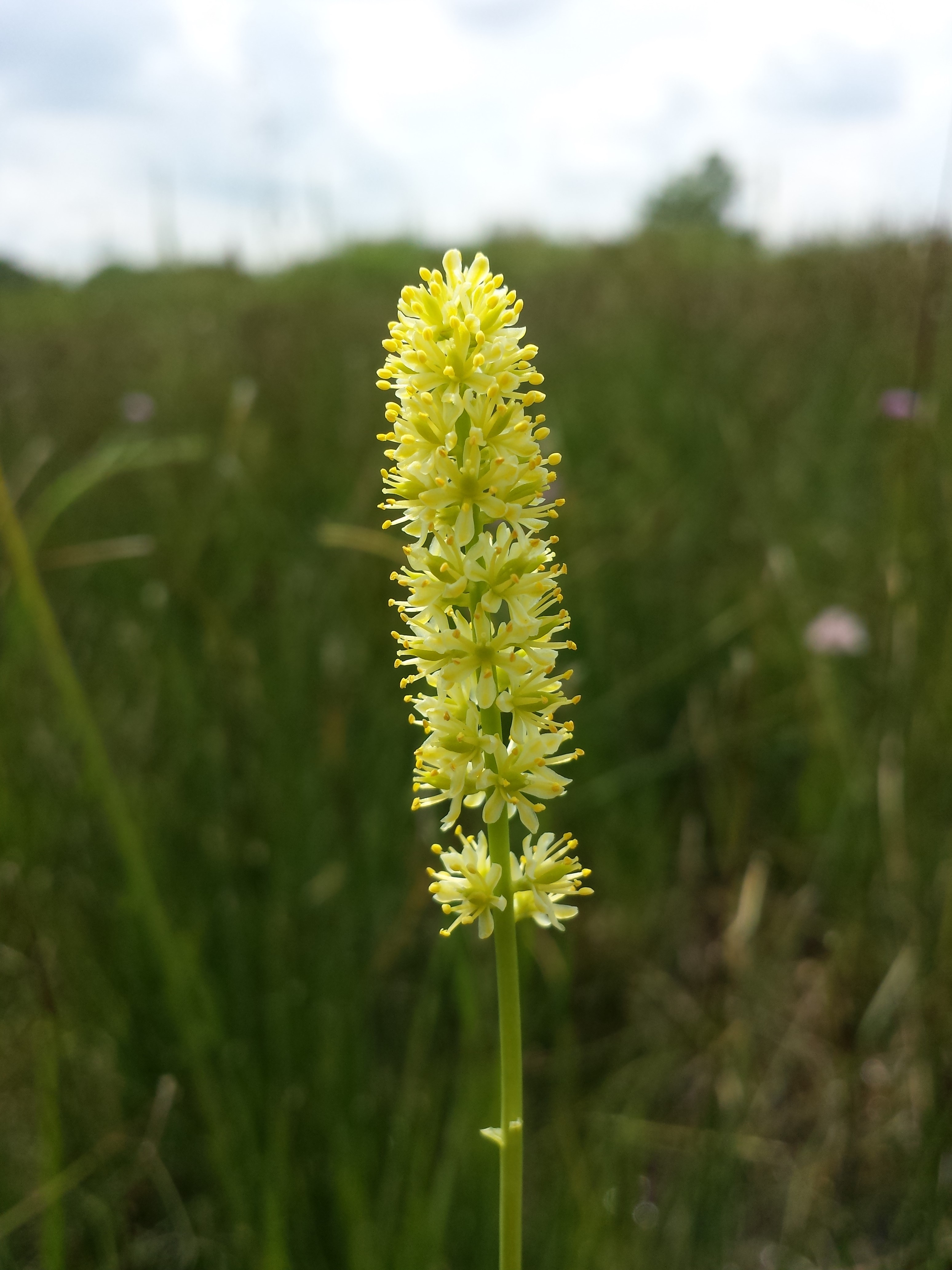 Inflorescence Taxonym: Tofieldia calyculata ss Fischer et al. EfÖLS 2008 ISBN 978-3-85474-187-9 Location: natural monument Brunnlust near Moosbrunn, district Wien-Umgebung, Lower Austria - ca. 185 m a.s.l. Habitat: bog